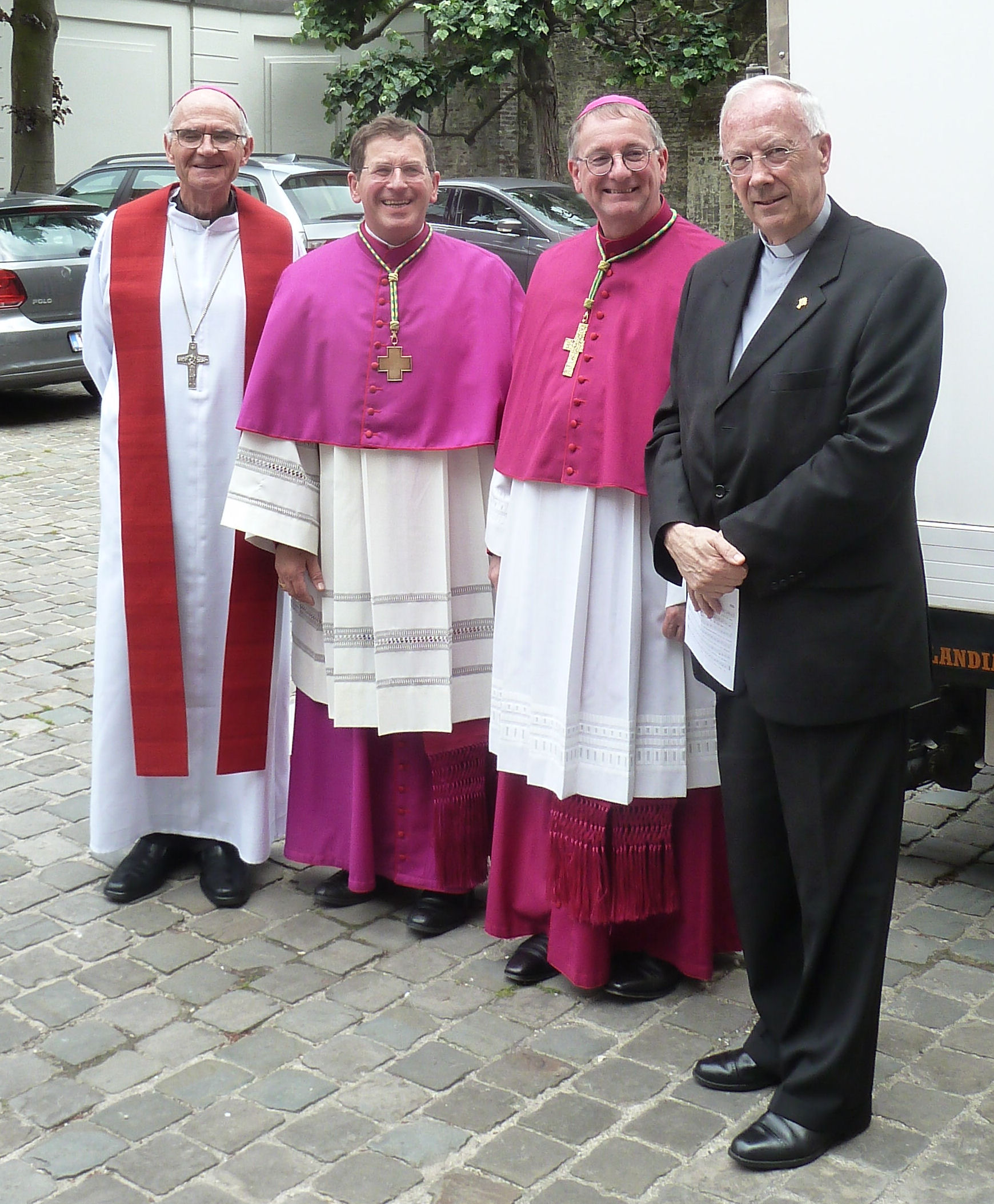 Procession of the Precious Blood, Bruges AD 2019/ Rev. Stockman, Mgr. van Looy and guests